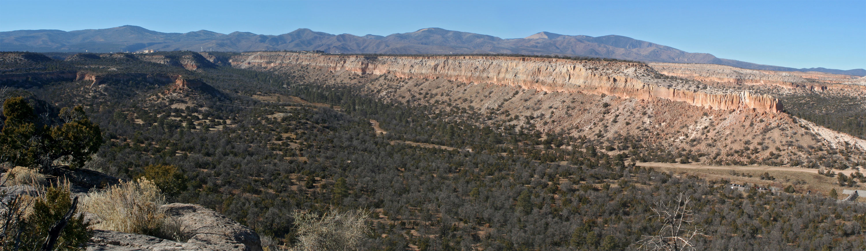 Los Alamos site, in New Mexico (USA), picture taken from Bandelier National Monument